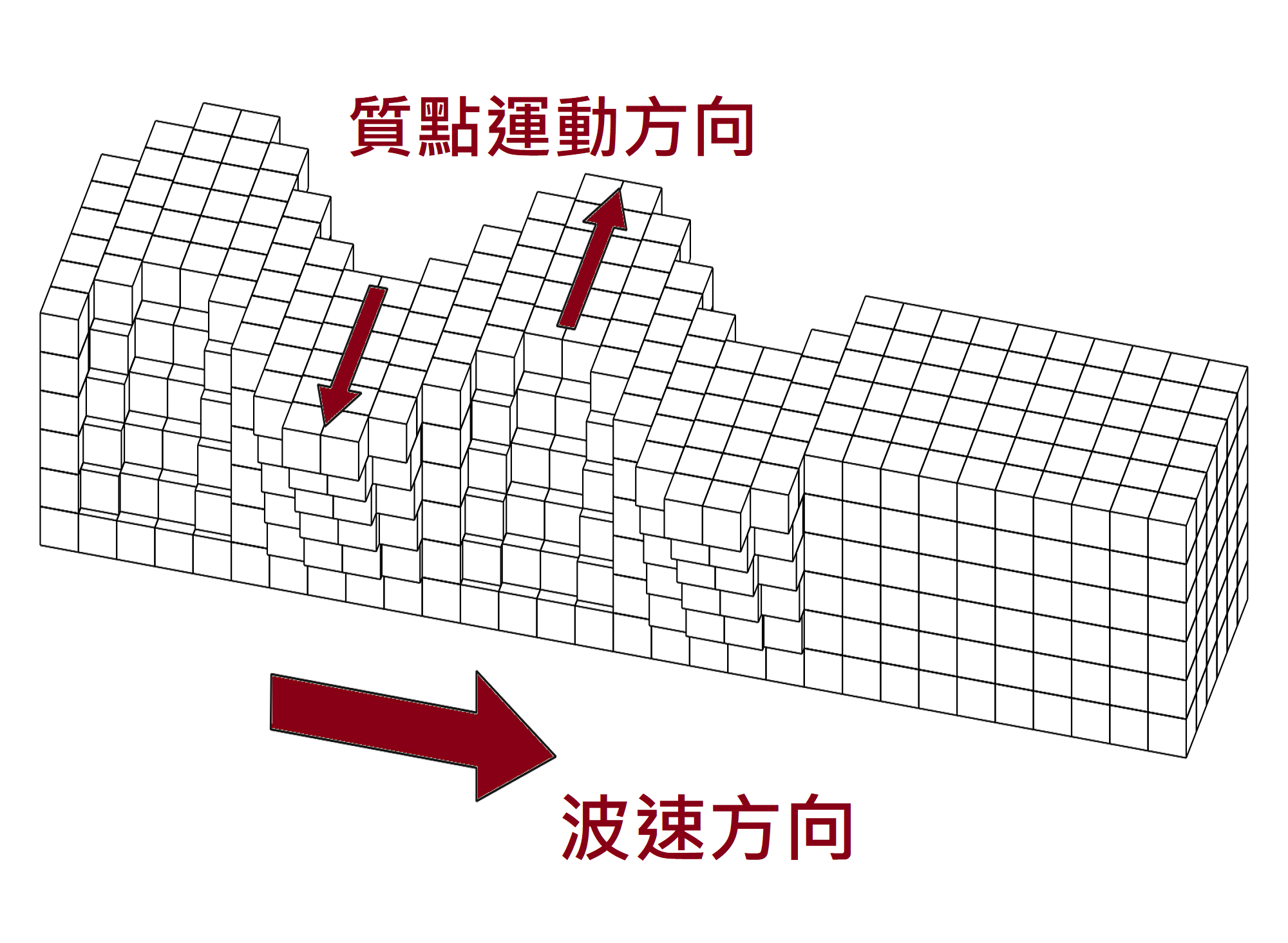 Depiction of the propagation of a Love wave. The particles vibrate perpendicularly to the direction of propagation and the amplitude decays with depth.